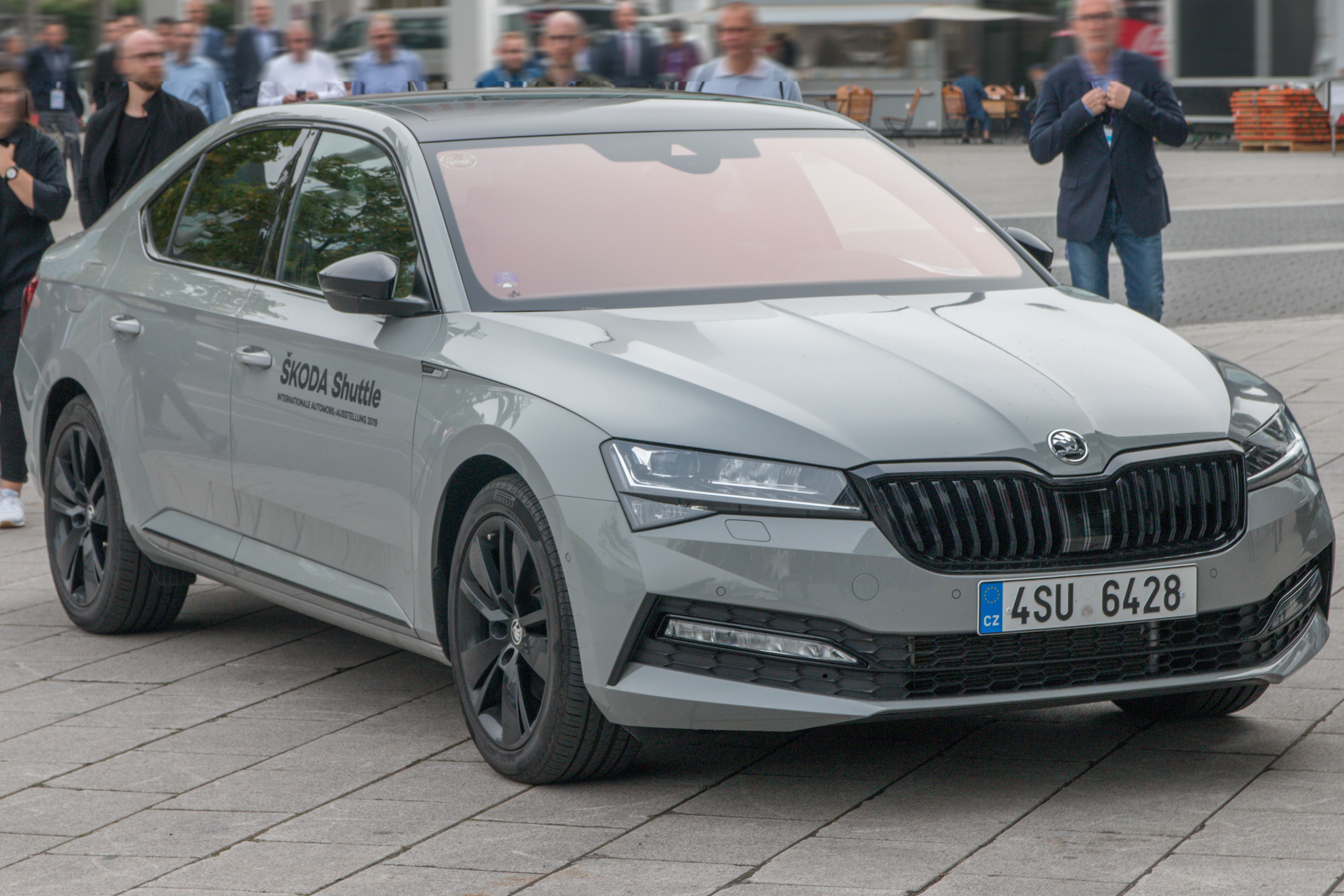 Škoda Superb III